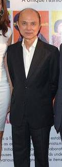 Jimmy Choo, a renowned fashion designer.